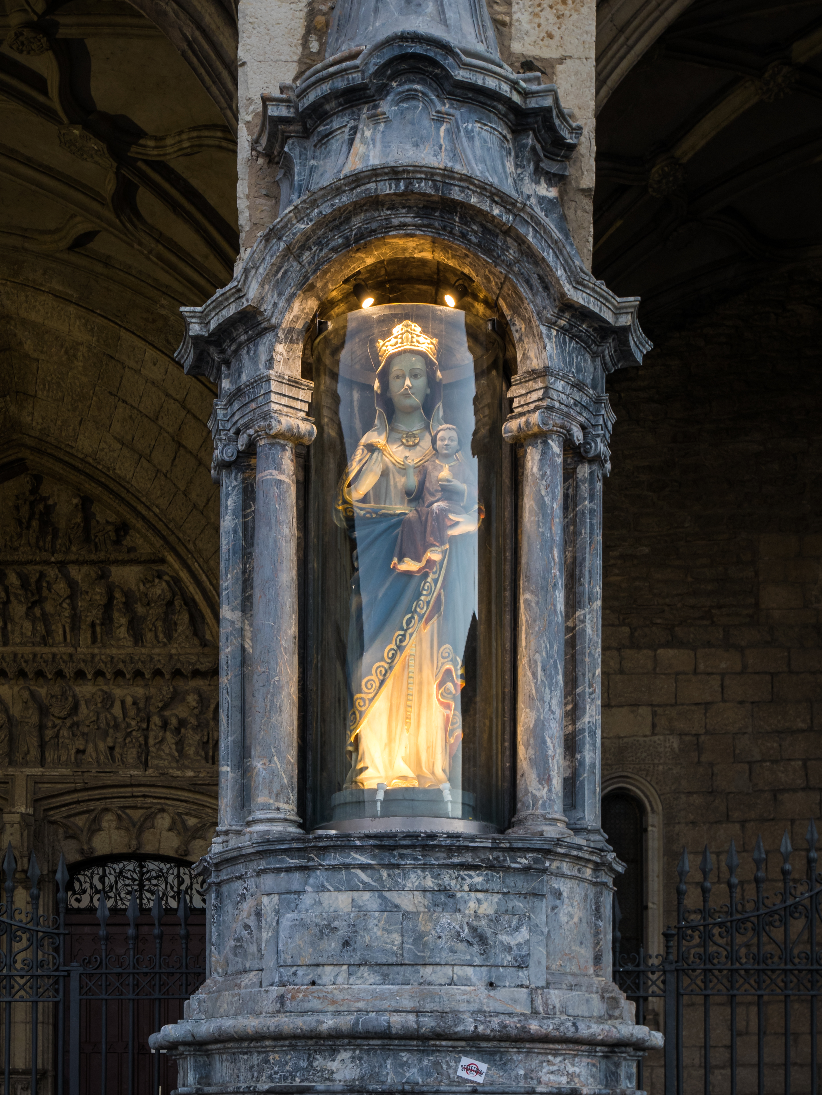 Statue of Virgen Blanca (the White Virgin) at St. Michael's Church. Vitoria-Gasteiz, Basque Country, Spain